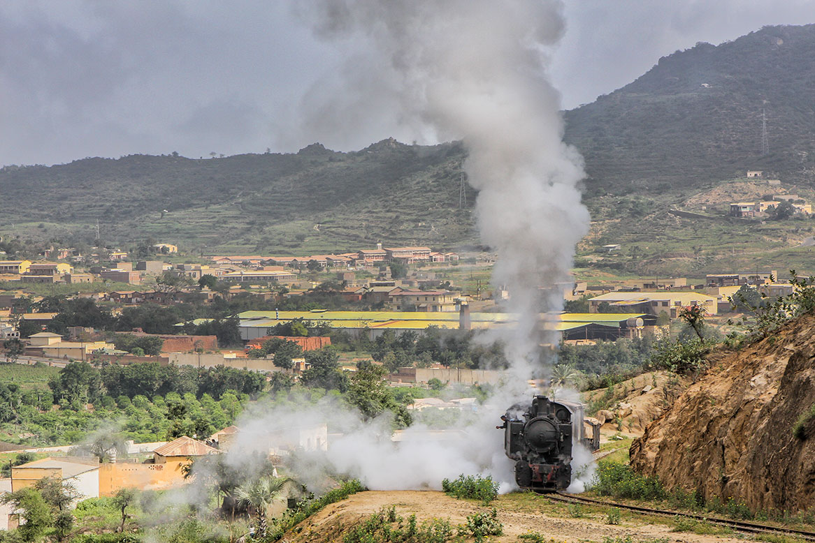 A steam on the Eritrean railway on the outskirts of Asmara, Eritrea